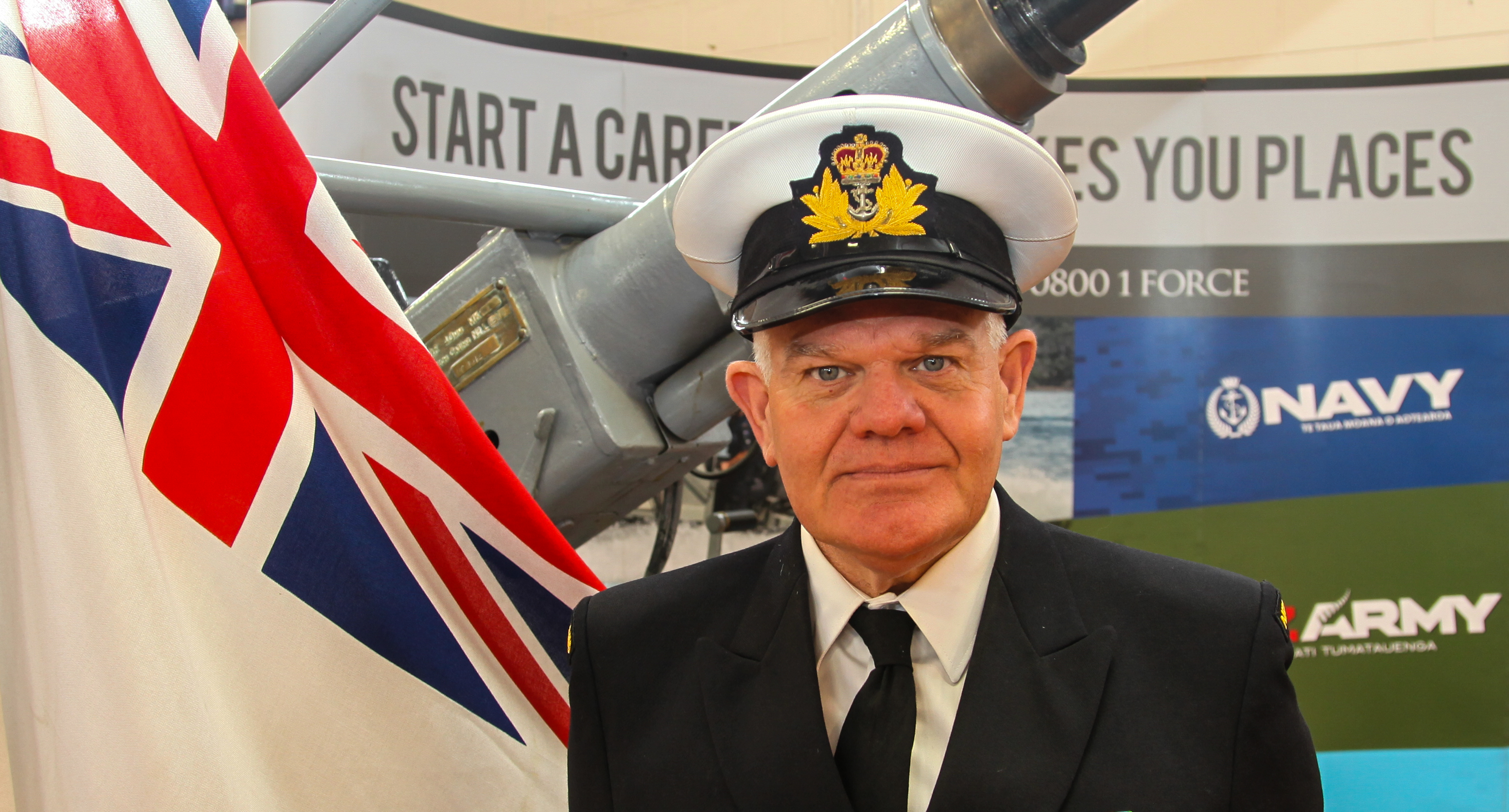 LTCDR Mark Hadlow.